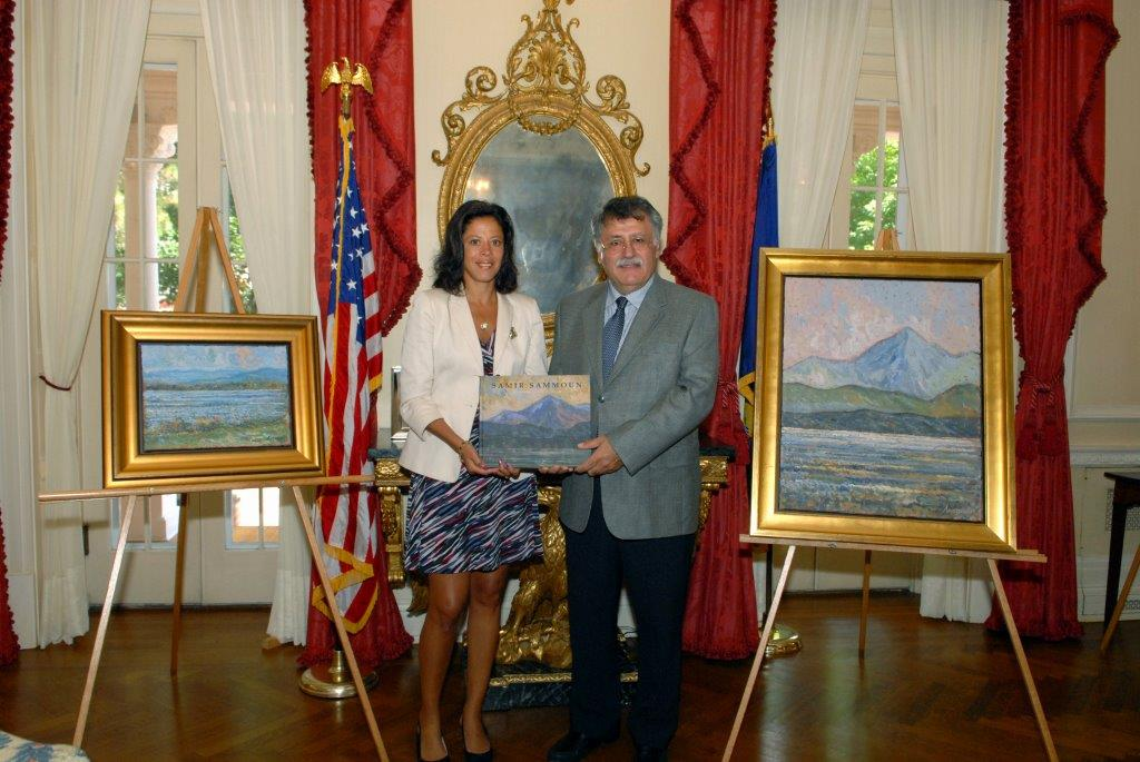 New York State First Lady Michelle Paige Patterson with Canadian Artist Samir Sammoun at the 400th Anniversary of the discovery of Lake Champlain. May 2009